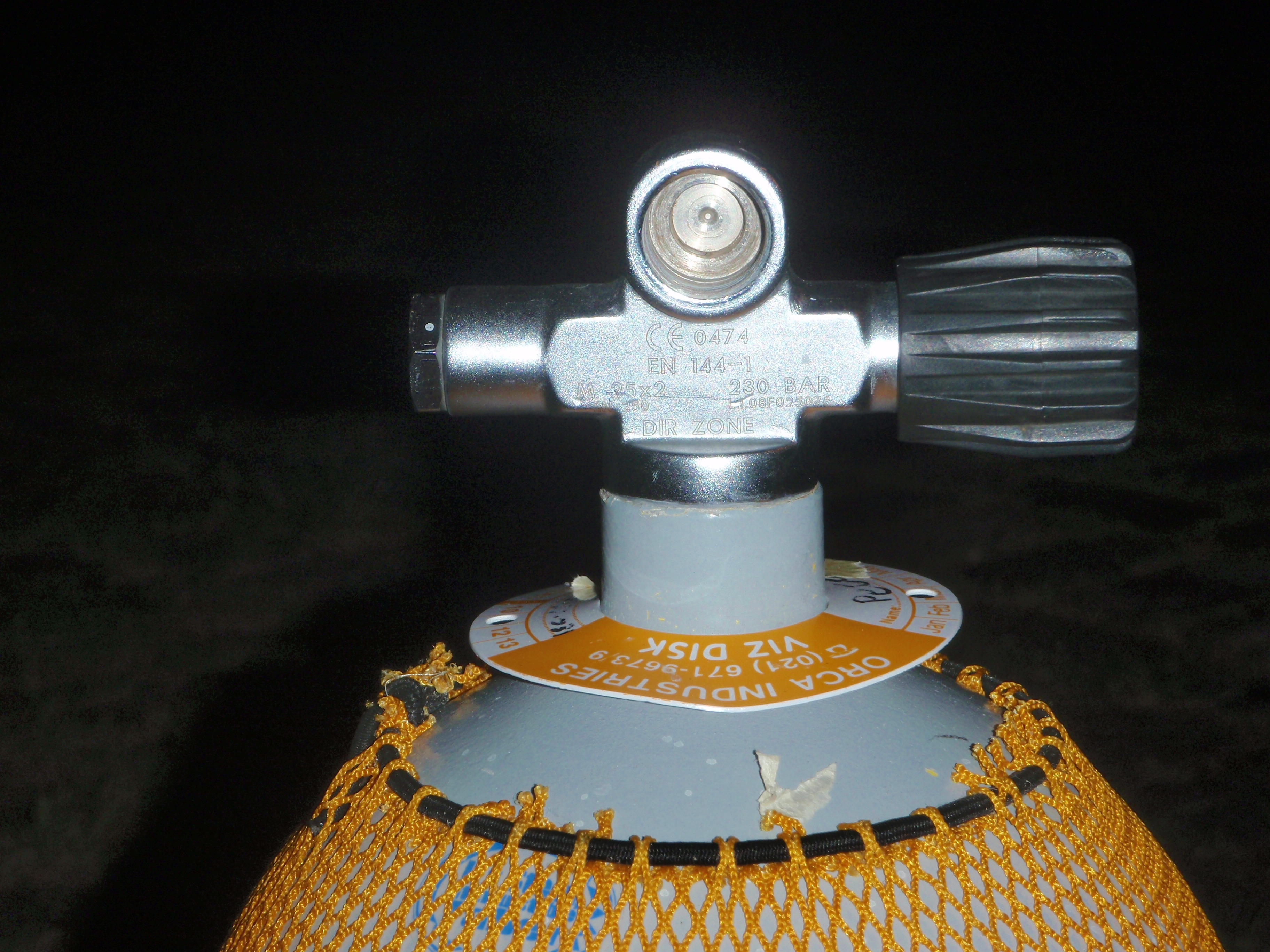 A 15l steel scuba cylinder with M25x2 DIN connection cylinder valve with left side transverse spindle valve intended for use with a barrel seal manifold, but fitted with a blanking plug .